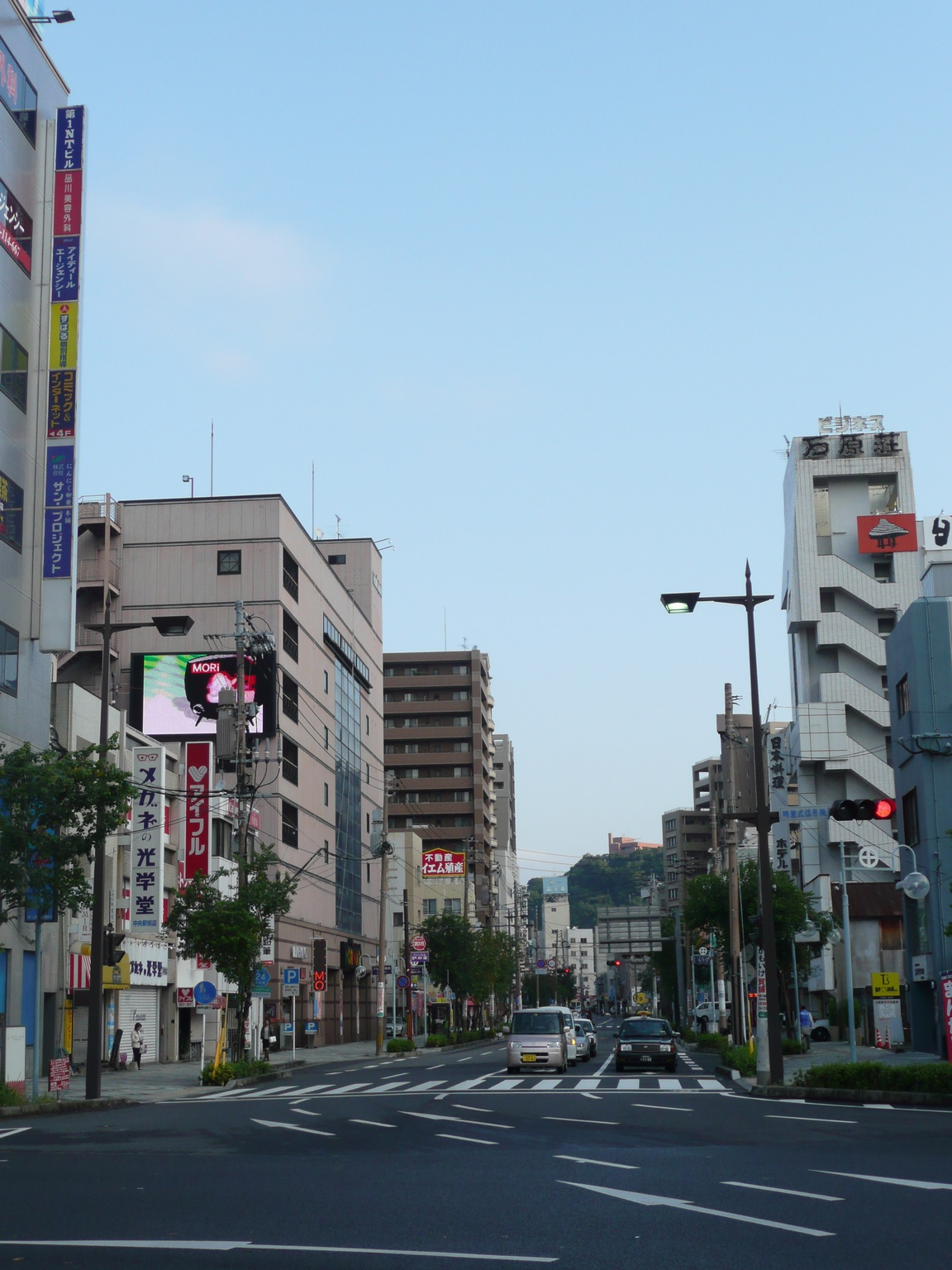 The Kagoshima Prefectural Road Route 24 Kagoshima Higashi-Ichiki Line in Chuo-cho, Kagoshima City